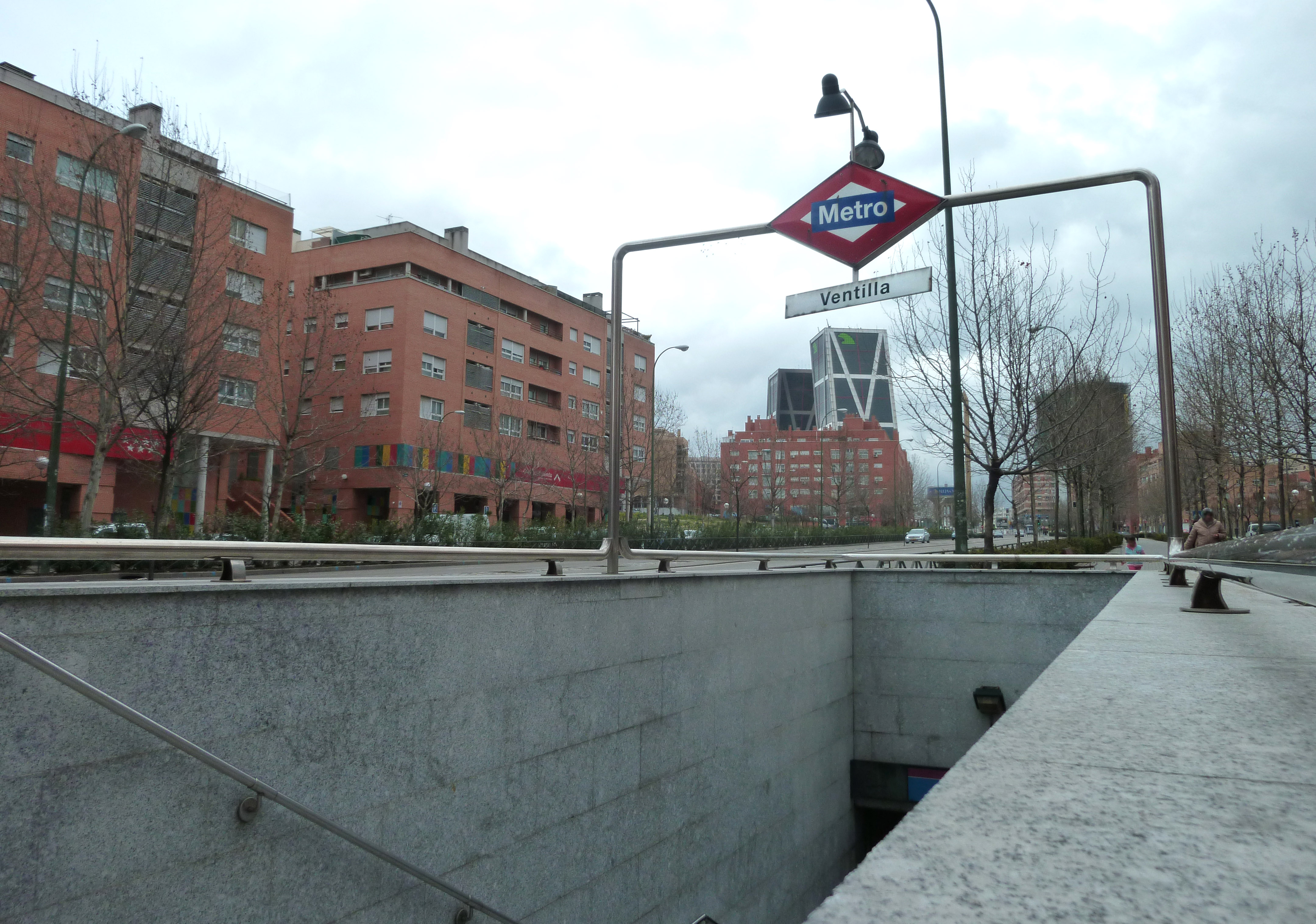 Entrance of Ventilla metro station in Madrid (Spain), at 37 Avenida de Asturias (avenue) in Tetuán district.